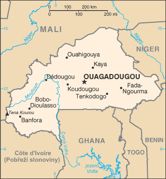 Map of Burkina Faso, translated to Czech.